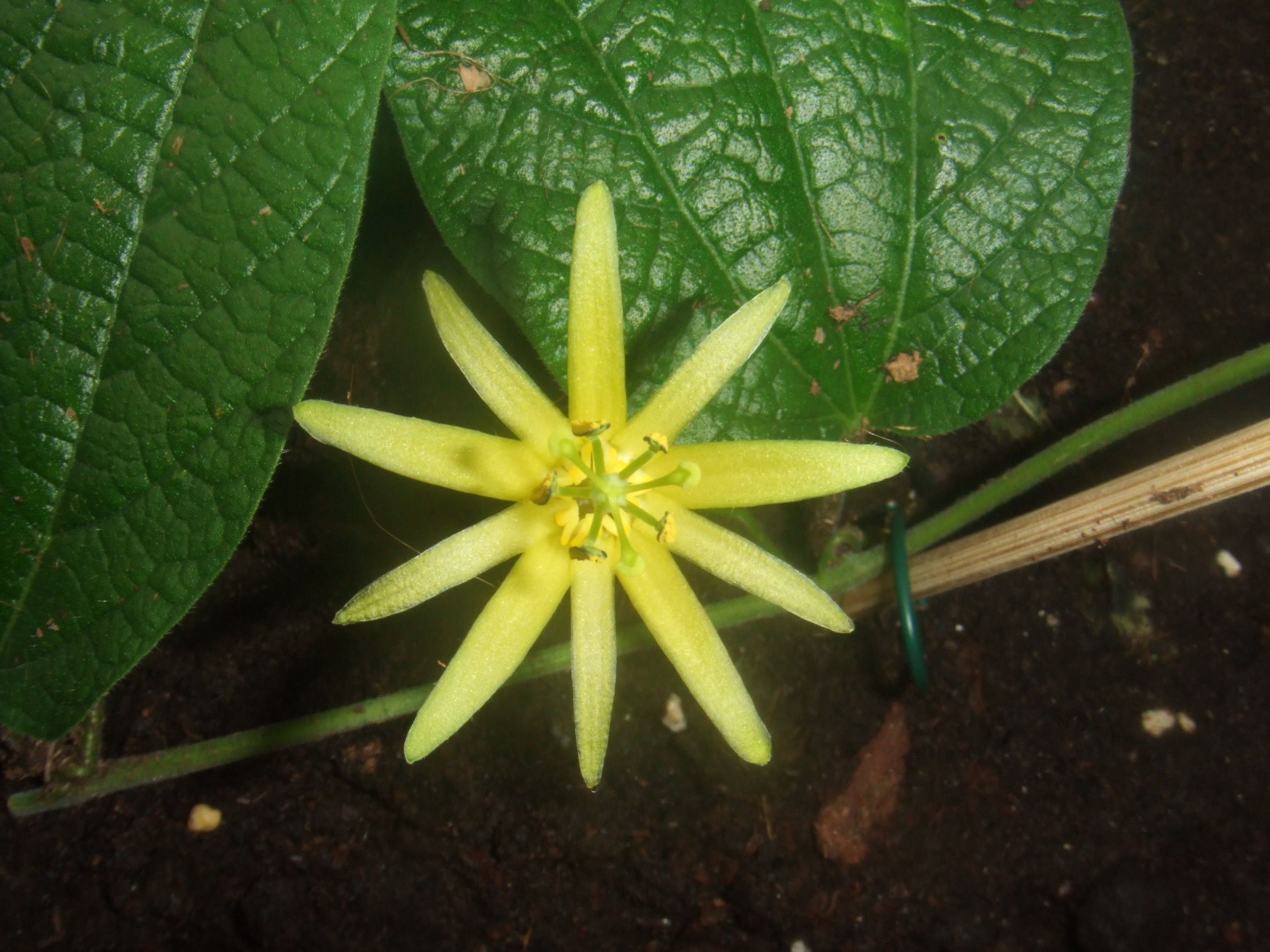 Passiflora citrina, own collection